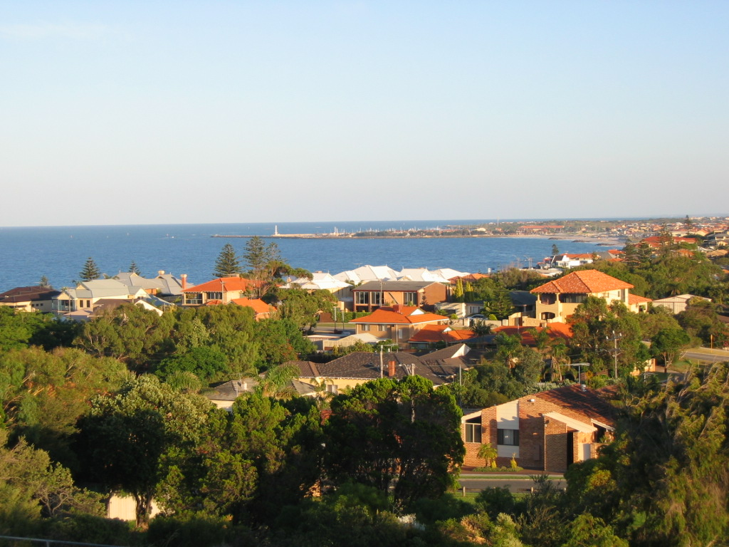 View north from Mount Flora lookout, Watermans Bay, Western Australia.